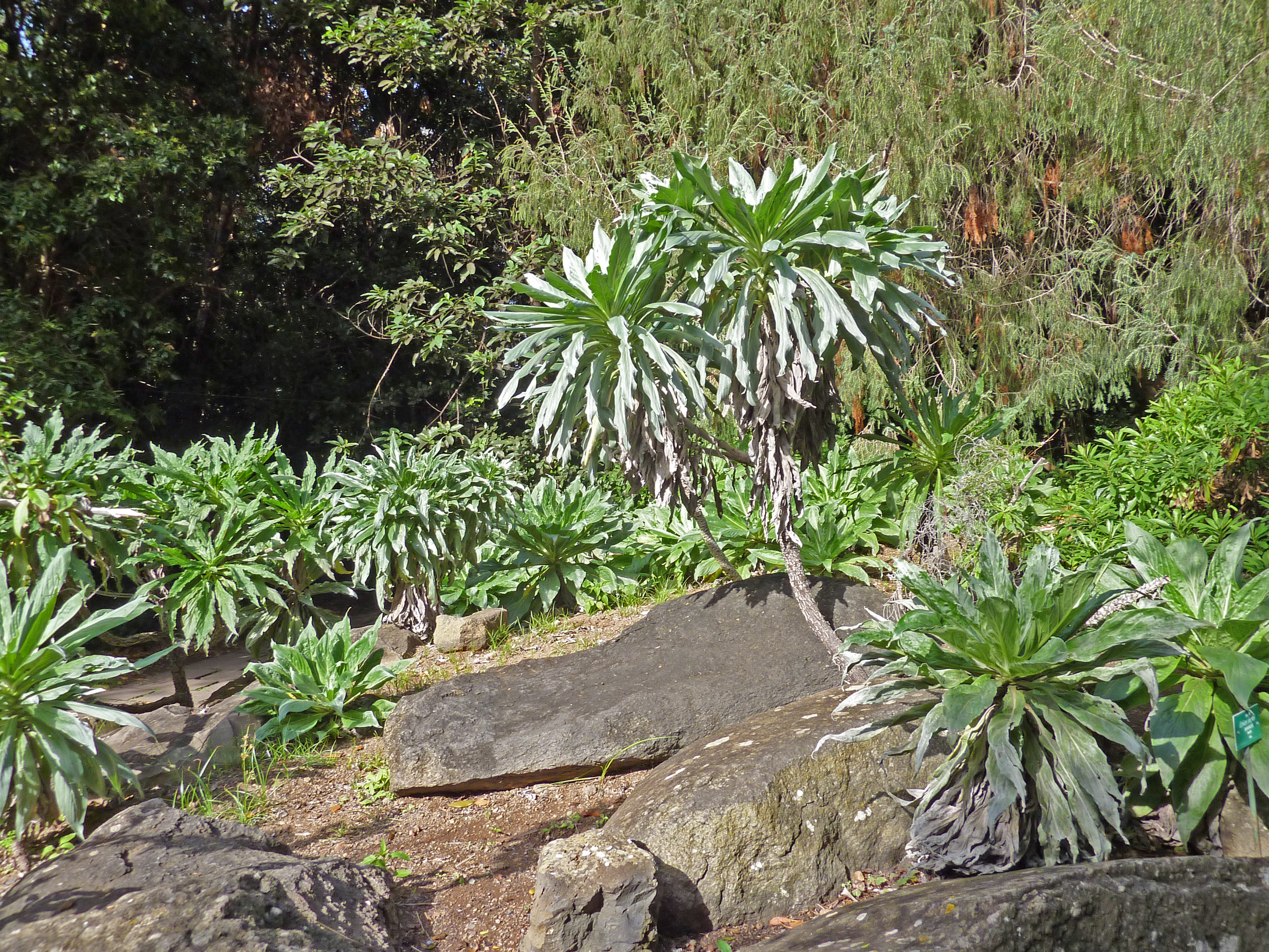 Echium simplex in the Jardín Botánico Canario Viera y Clavijo.